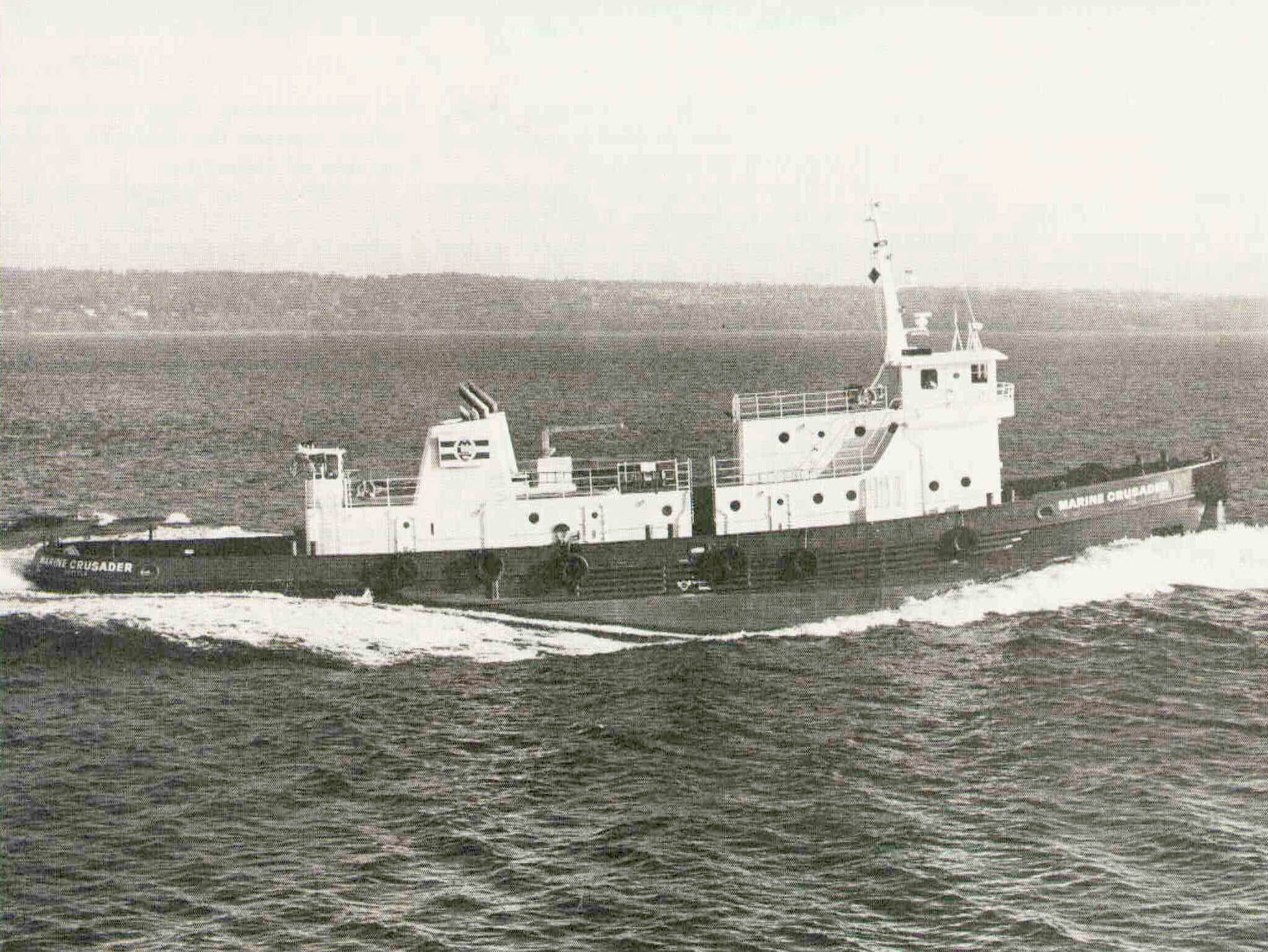 Former Santa Fe Railroad tugboat John R. Hayden as Marine Crusader. In 2008 her name is Titan. See Wiki IMO number: 8424123